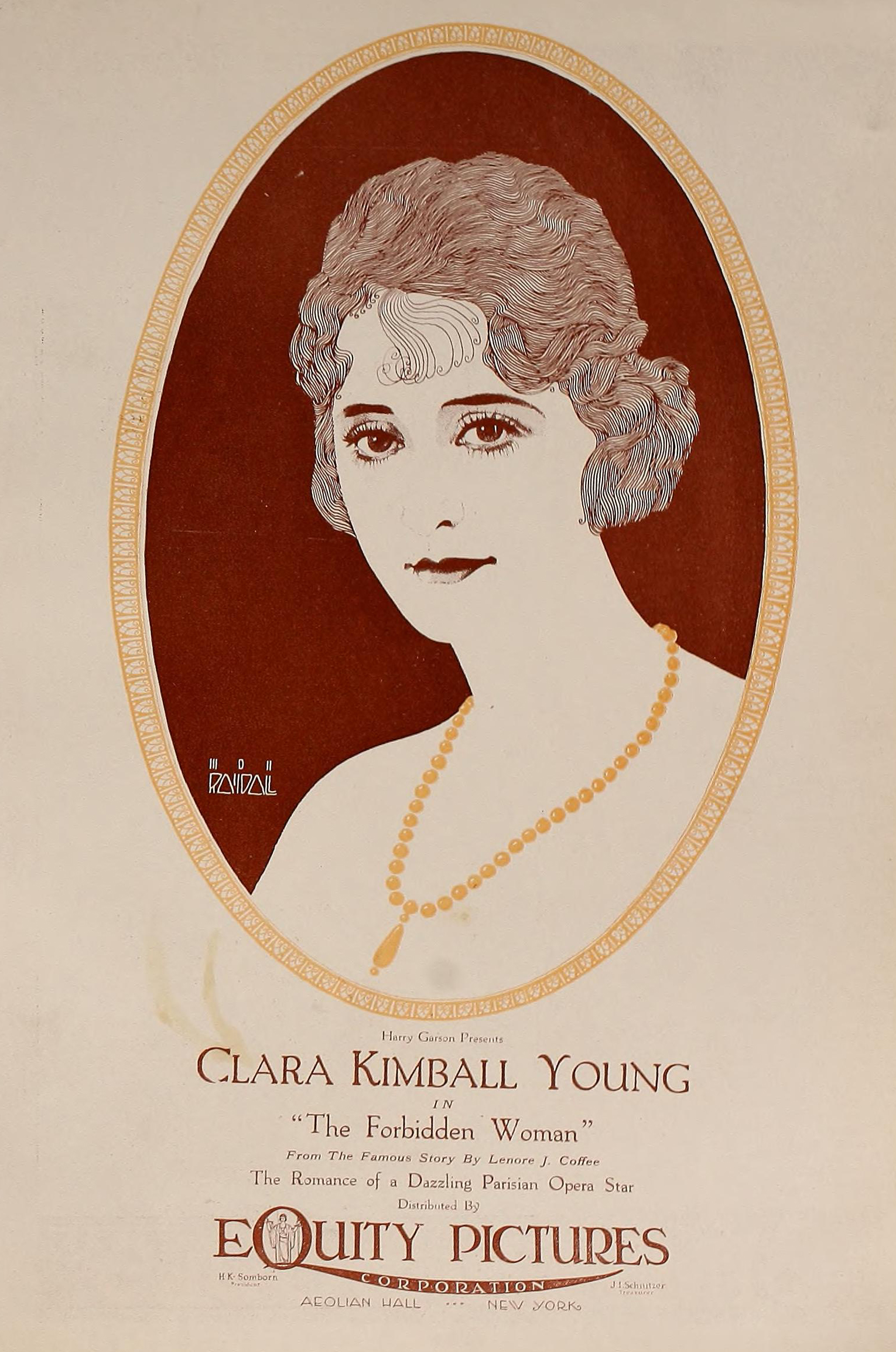 Advertisement for the American drama film The Forbidden Woman (1920) with Clara Kimball Young, on page 3678 of the April 24, 1920 Motion Picture News.